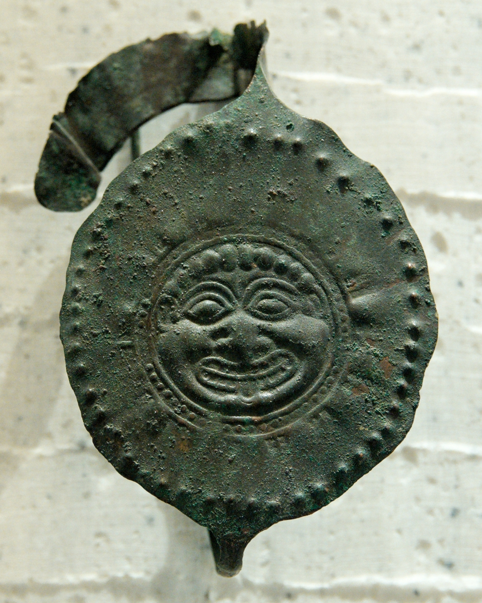 Disk-fibula with a gorgoneion. Bronze with repoussé decoration, Boeotian production under Corinthian influence, second half of the 6th century BC. From Asia Minor?